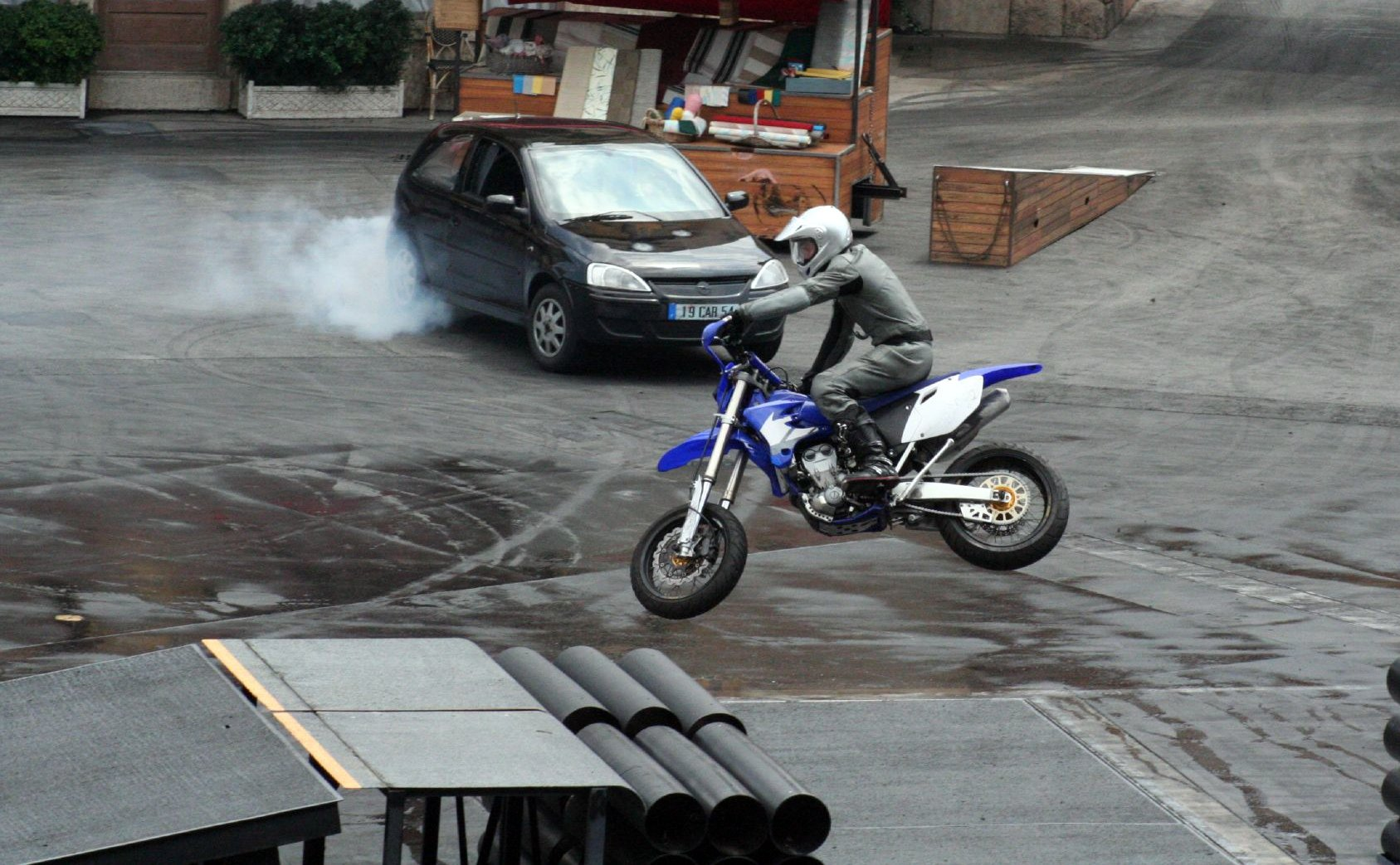 Taken in 2007 at Disney-MGM Studios